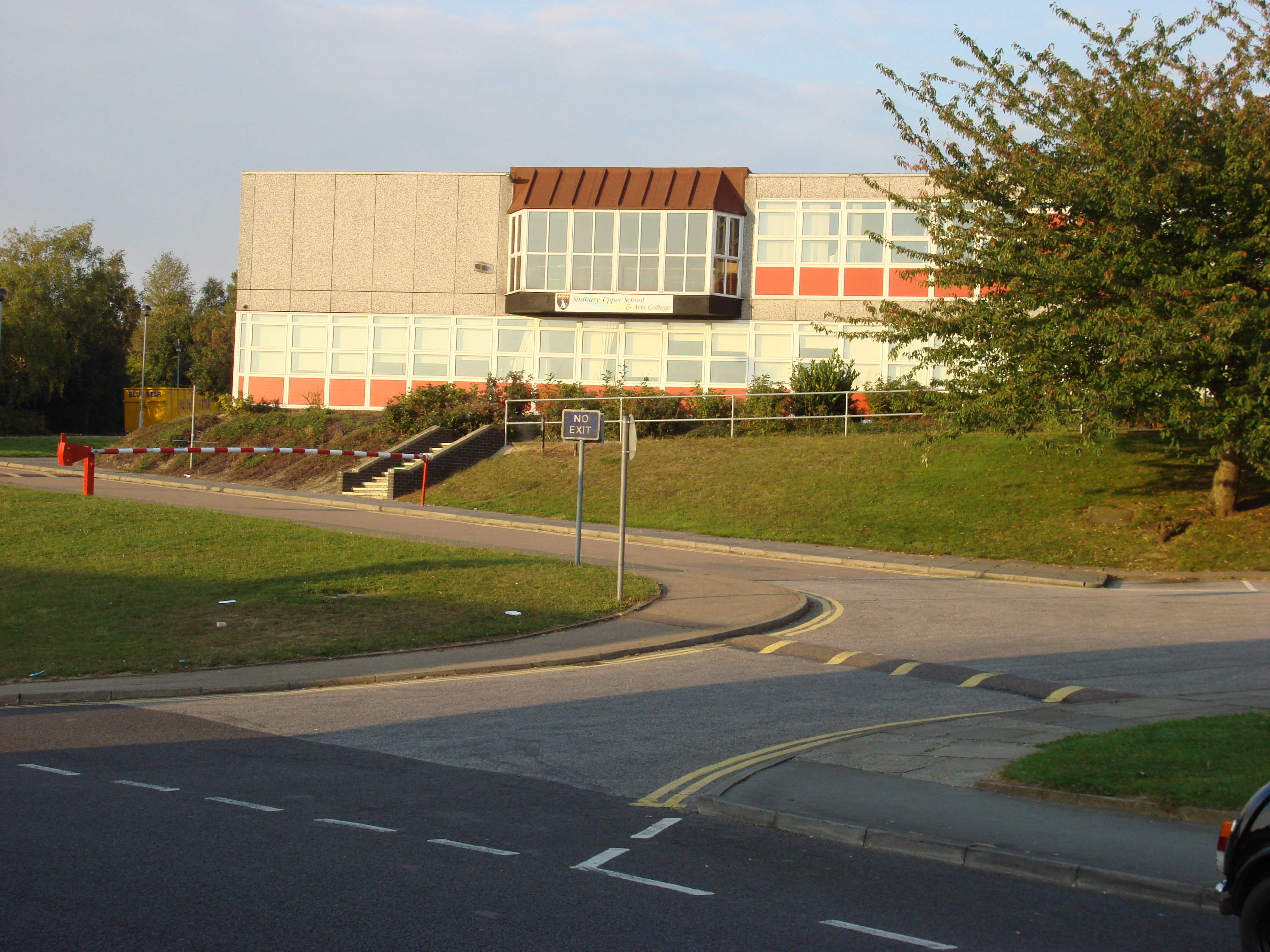 Sudbury Upper School is a 13 - 18 comprehensive upper school in the town of Sudbury, Suffolk for 13 - 19 year old students.The school was established in 1972 following the introduction of the comprehensive school system